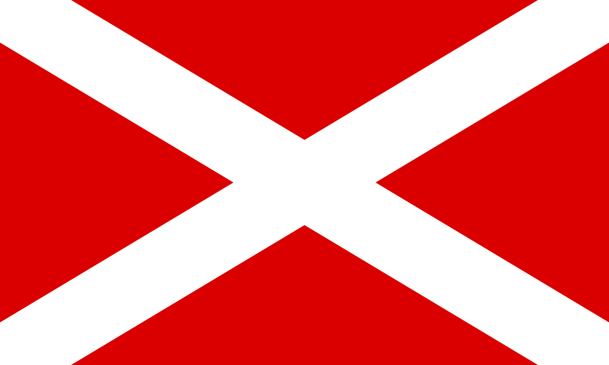 Gules, a saltire argent